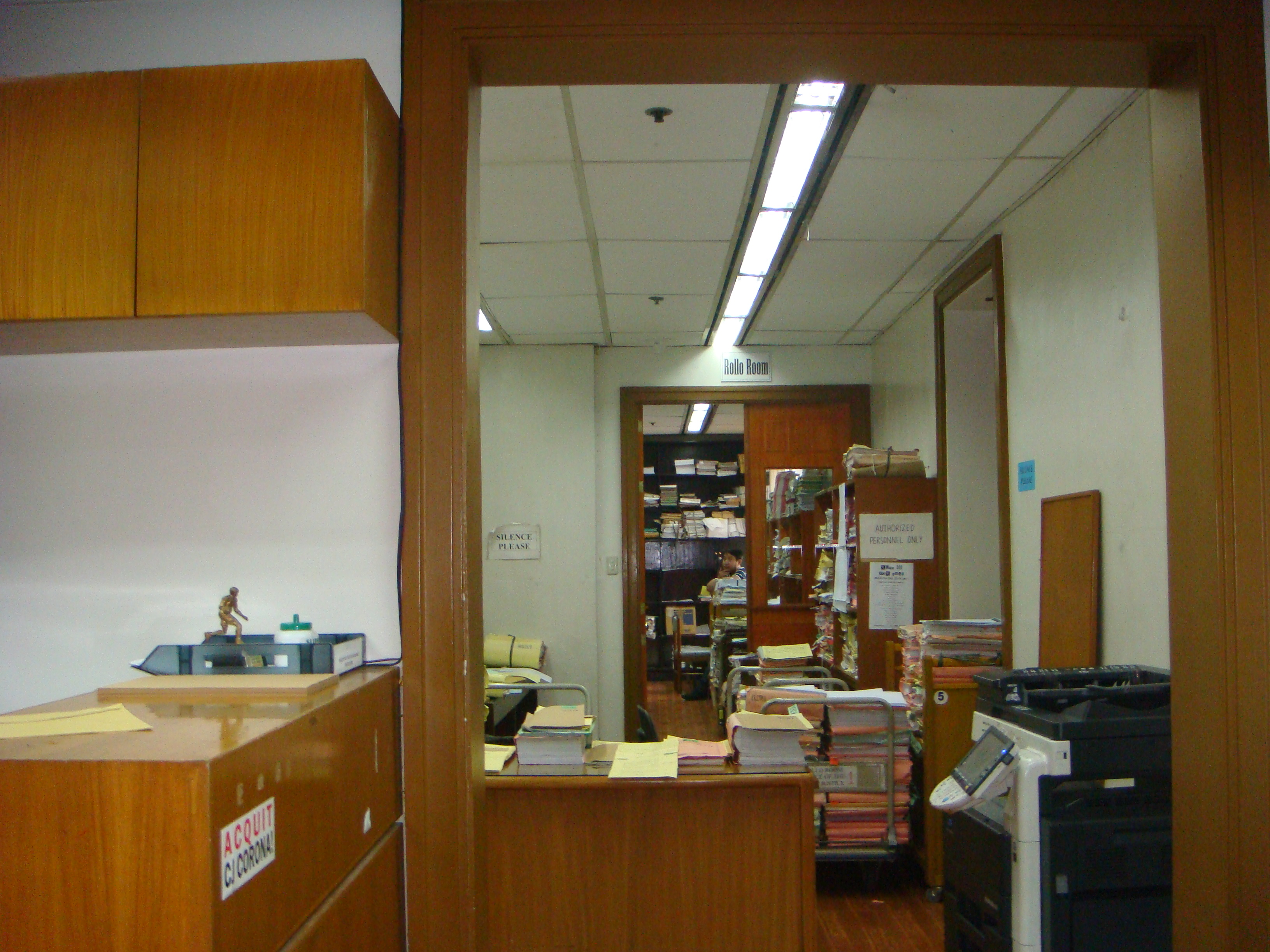 Receiving Section of the Office of the Chief Justice of the Philippines